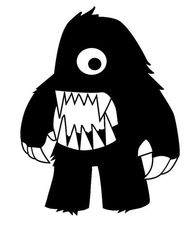 Picture of an Isnashi